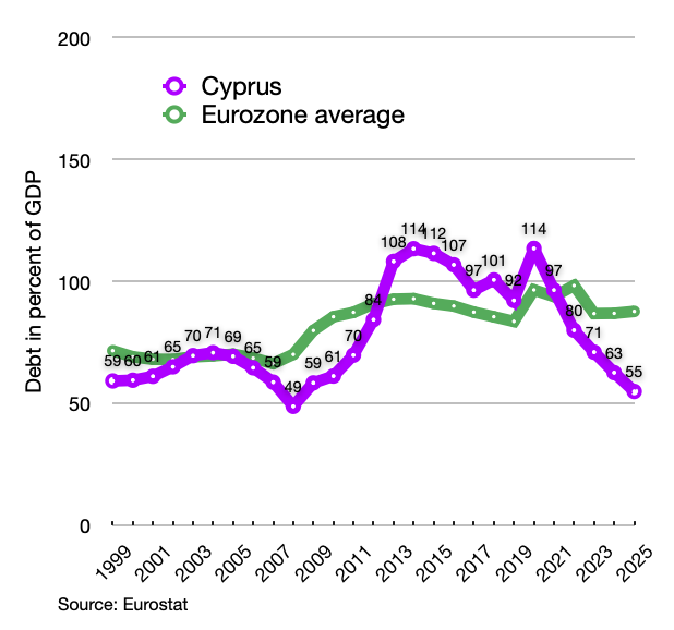 Cypriot debt history since 1999. 1999-2011: Eurostat data: (see "General government gross debt") (see also: 2010-2015: Eurostat data: (latest update: October 2013) (2016-2017: Once Ernst & Young updates their forecasts, then we could use their data as well: 2015-2016 estimates from Ernst & Young using data from Oxford Economics ; (latest update: June 2012))